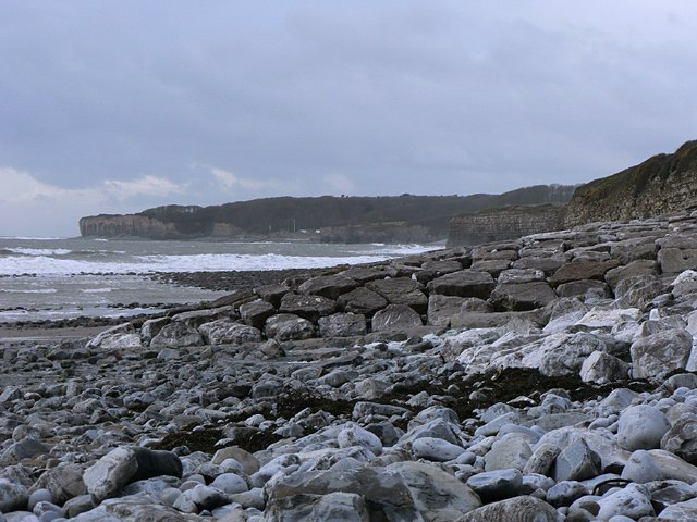 'Beach' Defences, Llantwit Major Large boulders have been placed at the mouth of the Afon Col-huw in an attempt to protect what remains of the sands from the effects of dredging in the Bristol Channel.